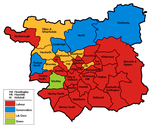 Ward map of Leeds City Council with political colouring for the 1999 election.